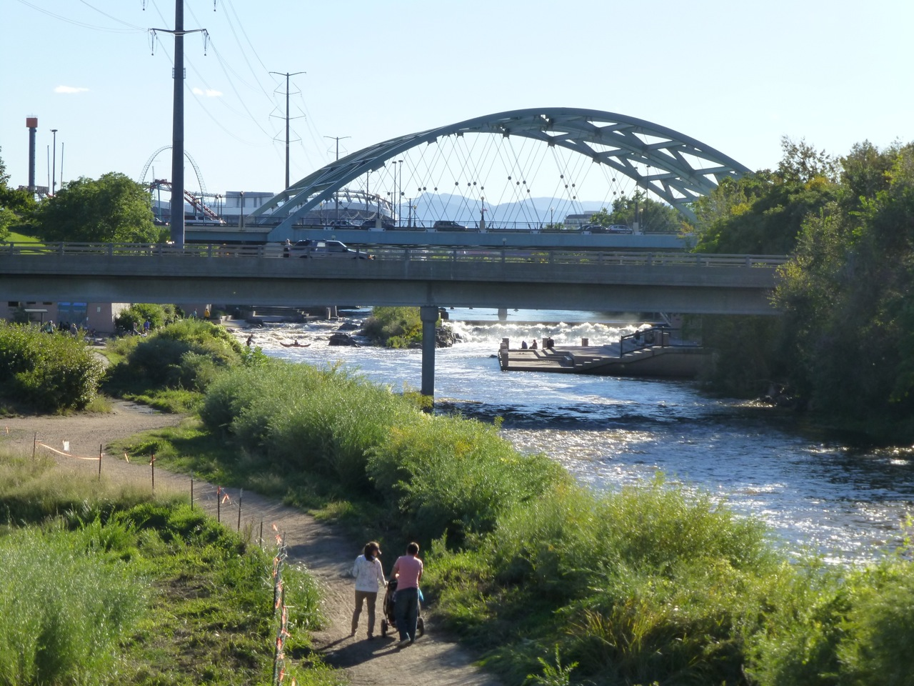 Confluence Park pedestrian bridge